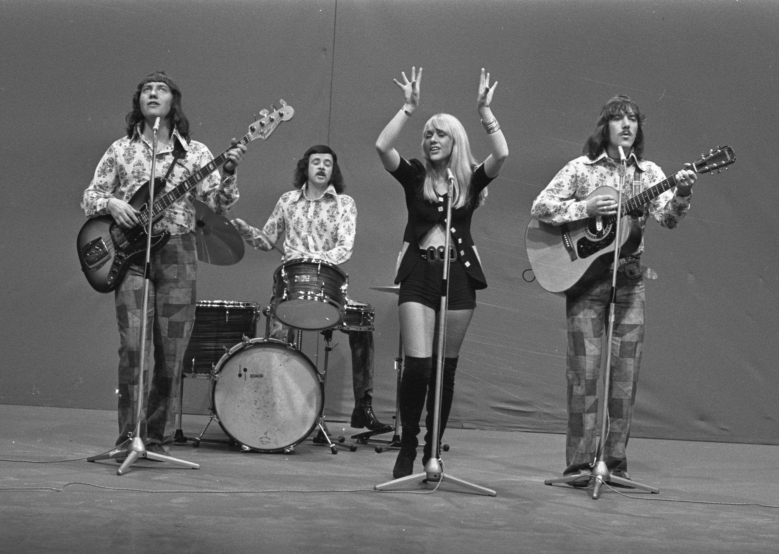 Popband "Middle Of The Road" in concert on the Dutch TV program Toppop.